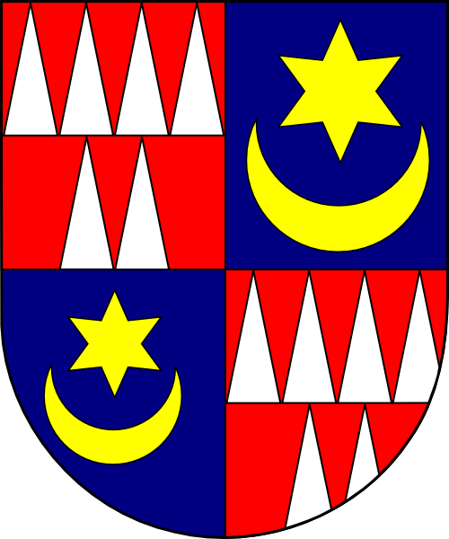 Coat of arms (shield only) of Stanislav Pavlovský z Pavlovic, bishop of Olomouc, Czech Republic (1579 - 1598). Arms used 1579 - 1588.